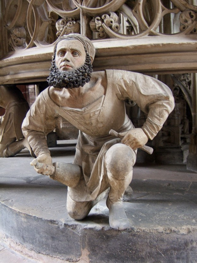 Self-portrait of the sculptor Adam Kraft at his main workplace in the church tabernacle of the Lorenzkirche, Nürnberg.